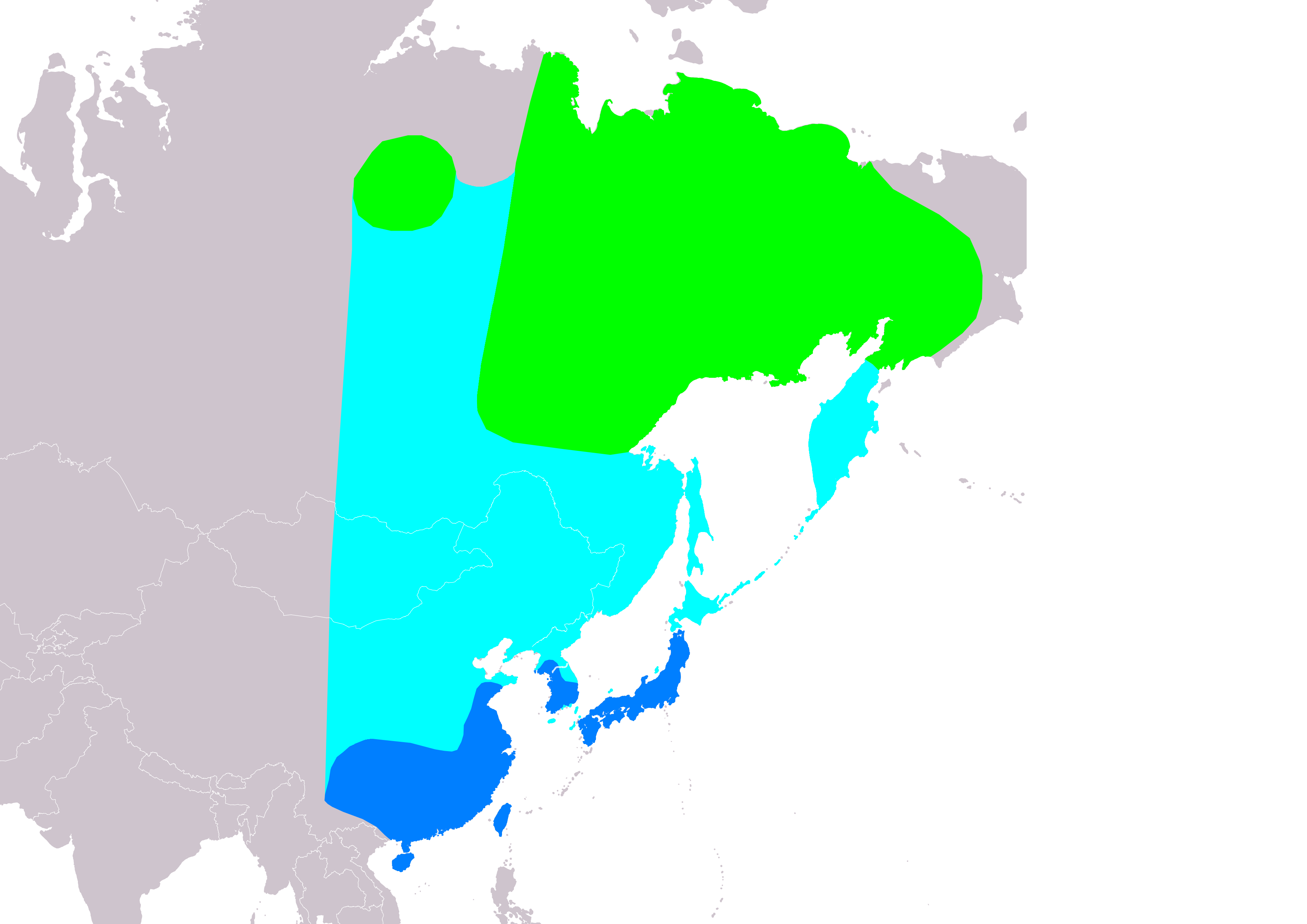 Distribution map of baikal teal (Sibirionetta formosa) according to IUCN version 2019-2 ; key: Legend: Extant, breeding (#00FF00), Extant, passage (#00FFFF), Extant, non-breeding (#007FFF)